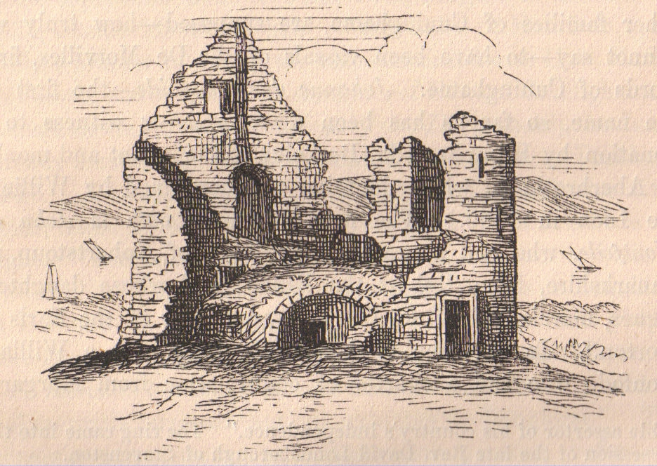 A view of Montfode Castle prior to substantial demolition, Ardrossan, North Ayrshire, Scotland.